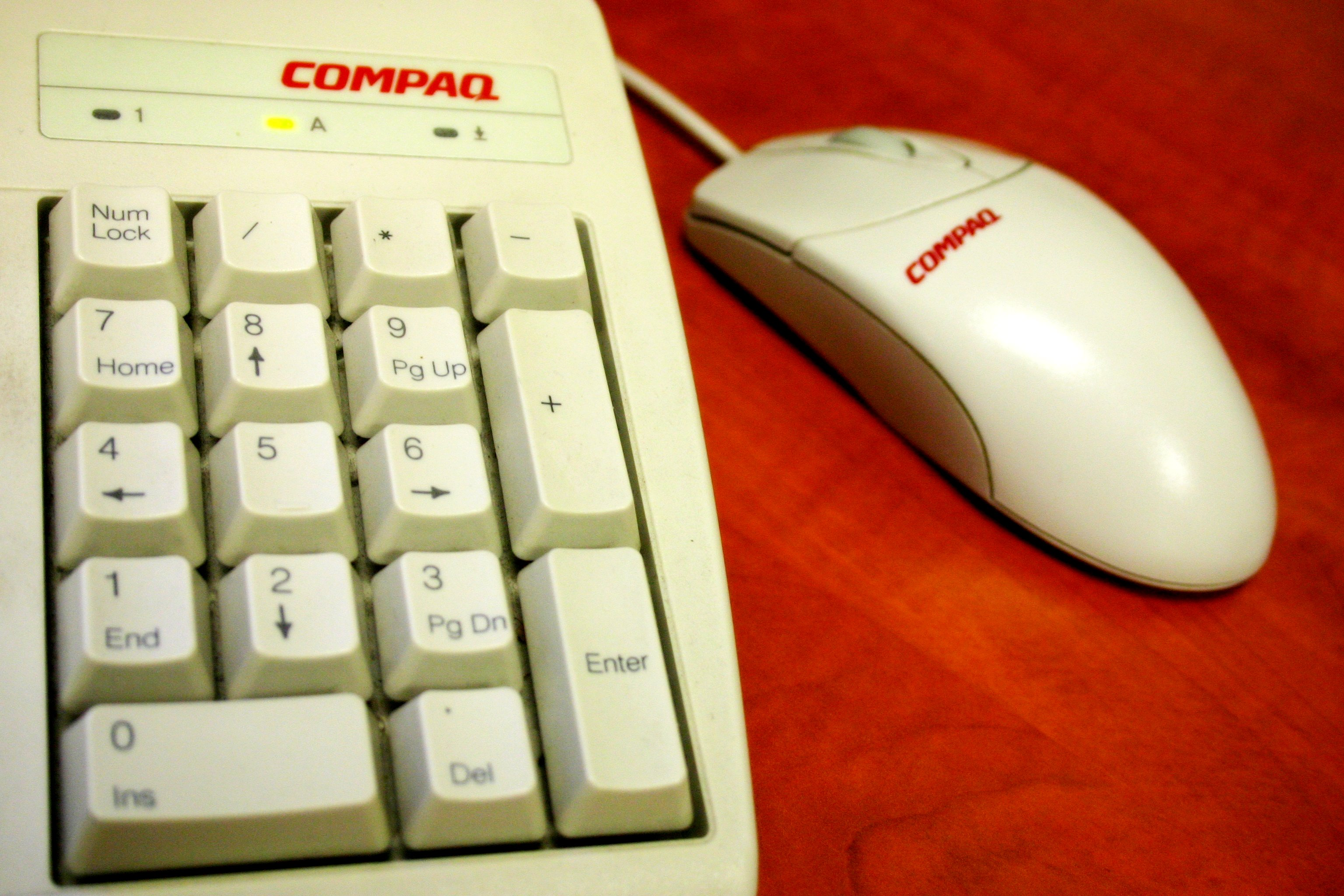 Compaq keyboard and mouse